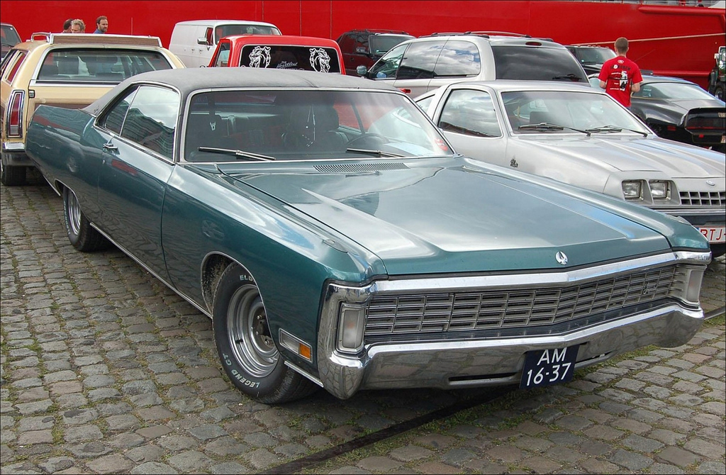 Previous count: 195